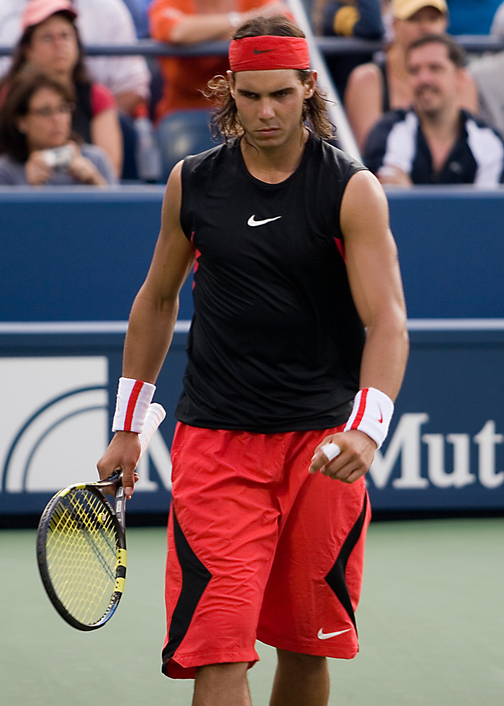 Rafael Nadal lets off some steam during his loss to Mikael Youzhny at the 2006 US Open.